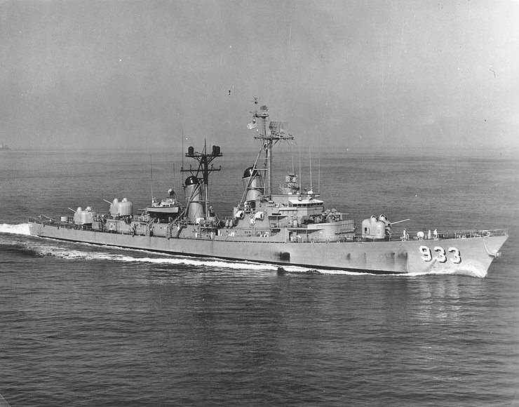 The U.S. Navy destroyer USS Barry (DD-933) underway at sea, circa the early 1960s, after she had been fitted with a bow-mounted sonar.